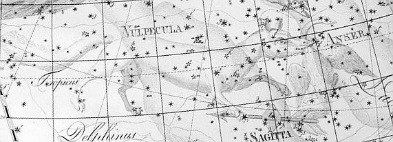 Vulpecula et Anser, constellation art from Uranographia by Johann Elert Bode, 1801. Bode died 1826.